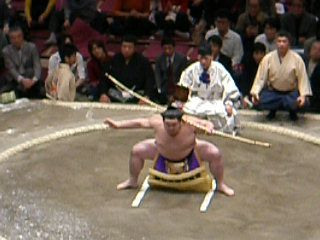 Yumitori-Shiki (Sumo)